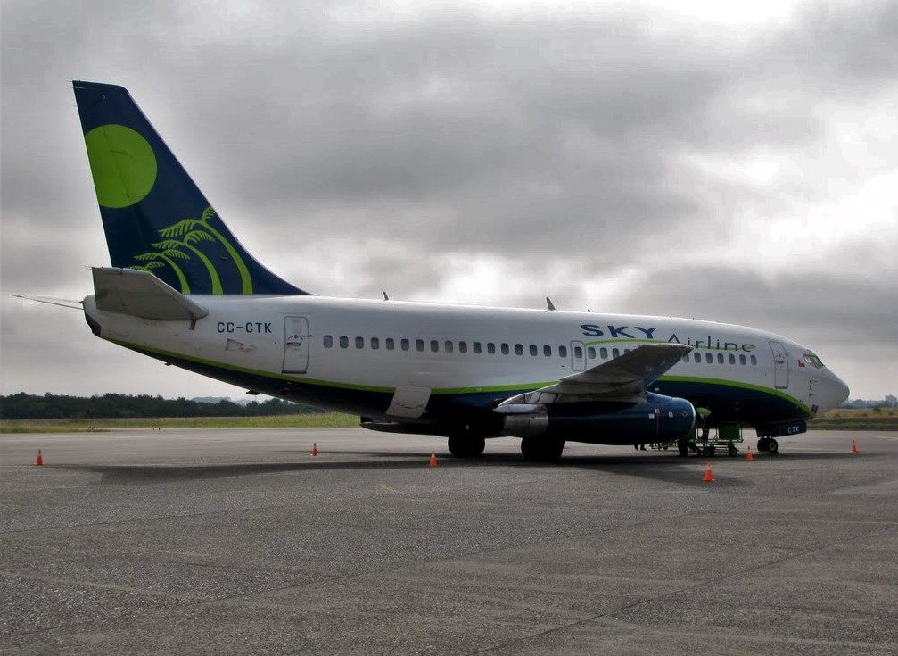 Shot of a formerly operated aircraft.